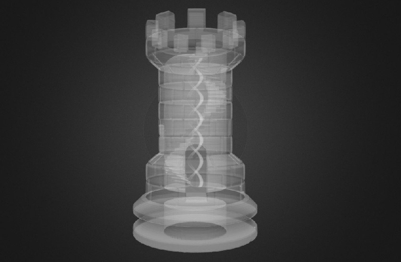 تصویر برداشته شده توسط دستگاه سی تی اسکن صنعتی از مهره شطرنج